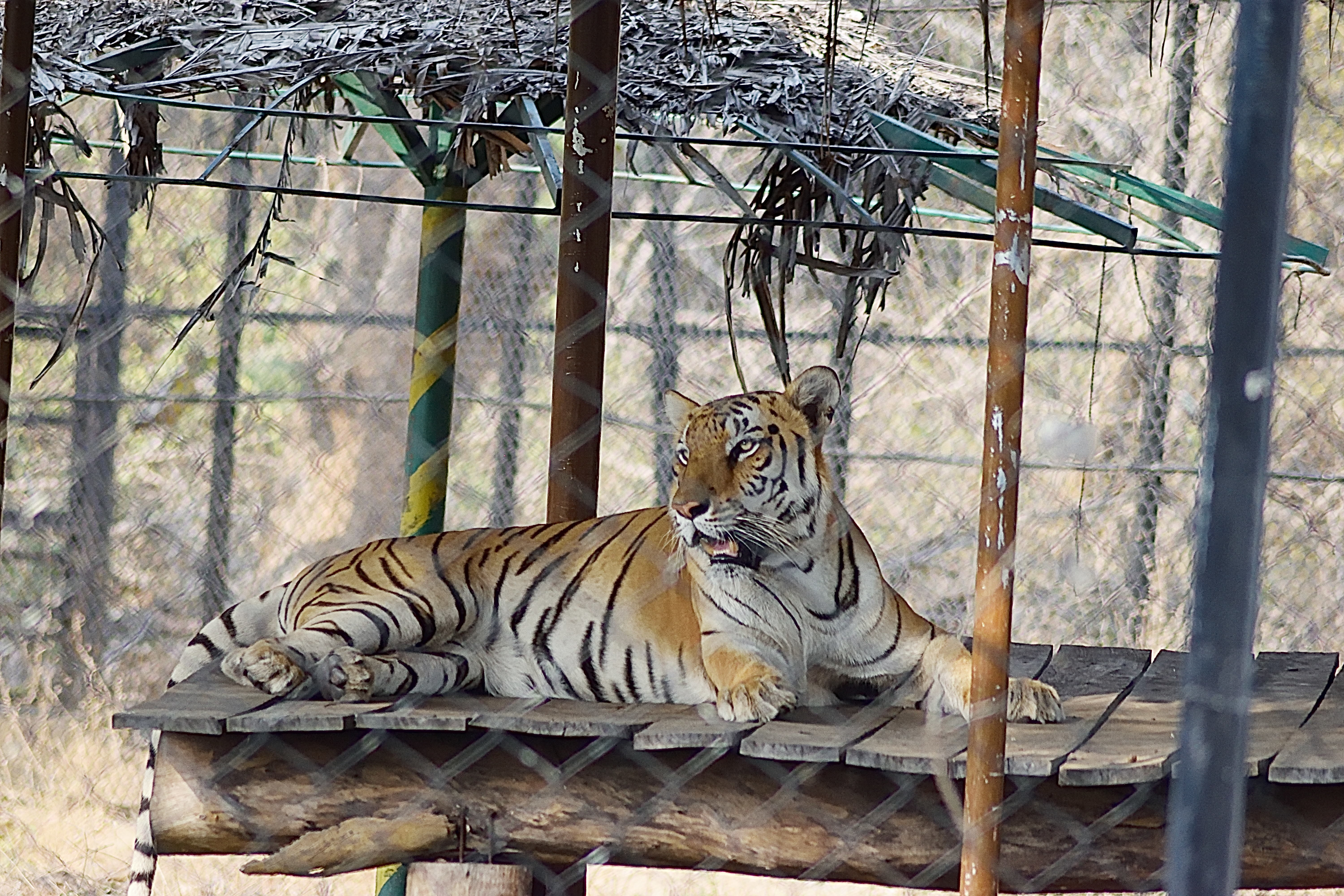 Tiger - Vandalur Zoo